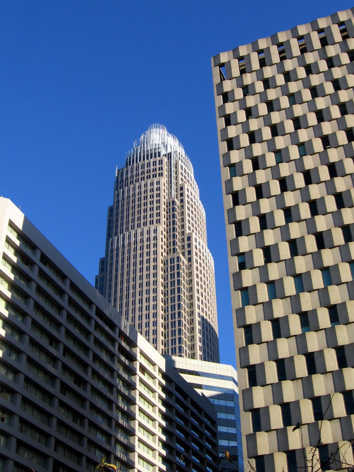 Bank of America Building, Charlotte, NC